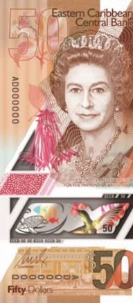 East caribbean states eccb 50 dollars